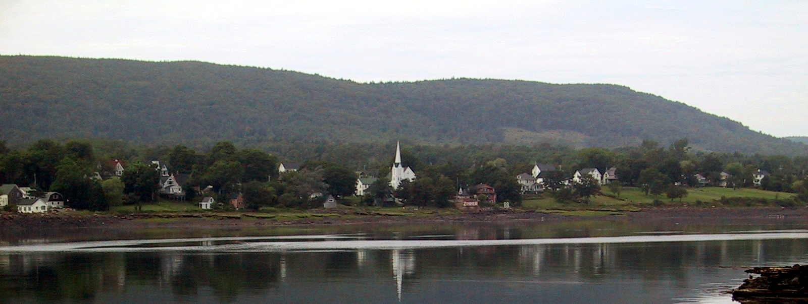 Granville Ferry, Nova Scotia, Canada skyline